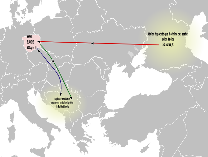 Serbian Migration: Red: hypothetical of the Serbians from Caucasus to central Europe Blue: migration of the Serbians in 600 years, with at the head the prince of white Serbia(Unknown Archont). Green: towards 900, Exchange of population between Byzantine Empire and Big Moravia. Serbians of white Serbia come become established in the valley of Morava instead of population valaques.